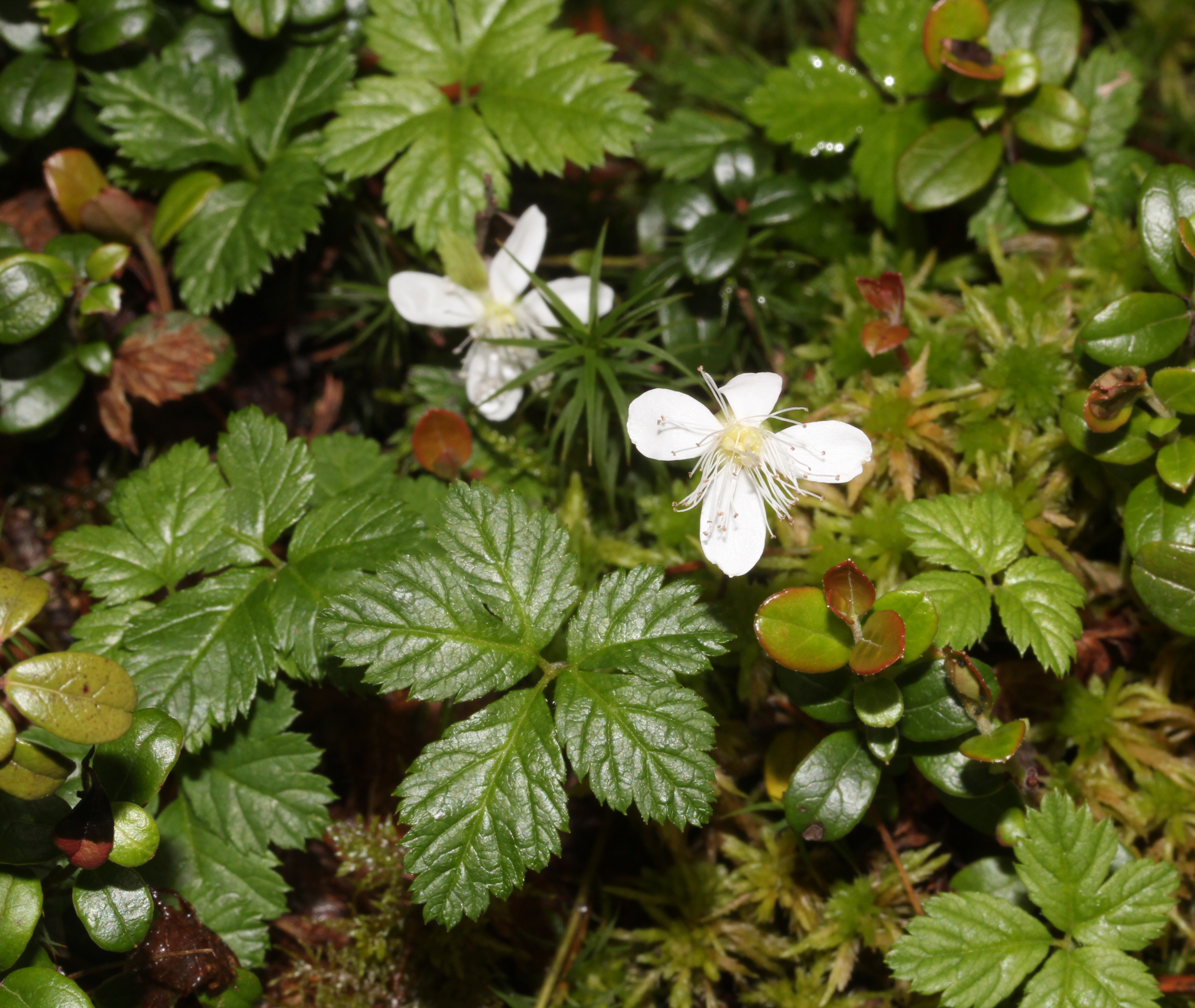 Rubus pedatus in Mount Kisokoma, Kiso town, Nagano prefecture, Japan.